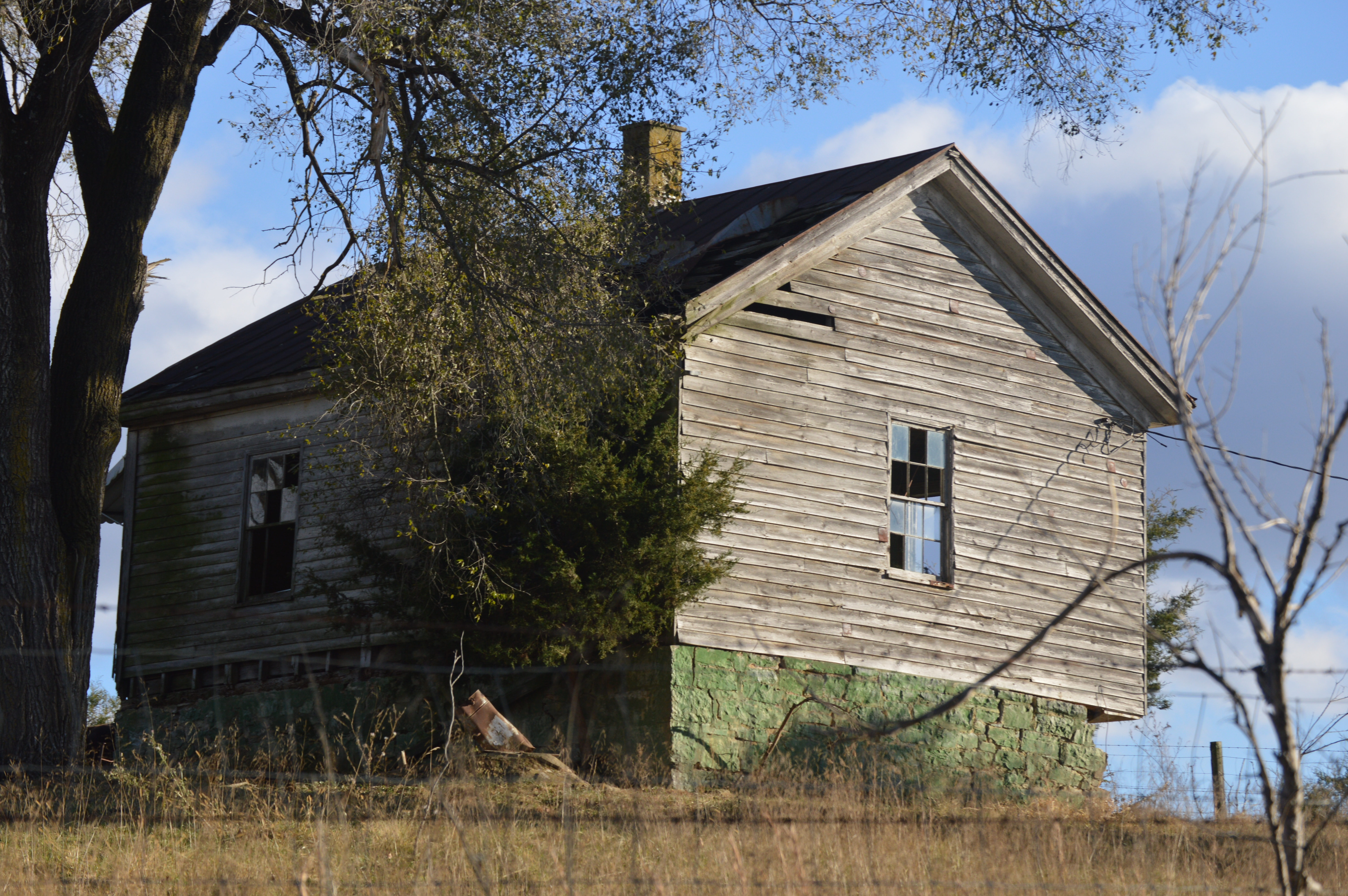 Front and northern side of the Mt. Meridian Schoolhouse, located on Rockfish Road at Mount Meridian in Augusta County, Virginia, United States. Built in 1886, it is listed on the National Register of Historic Places.